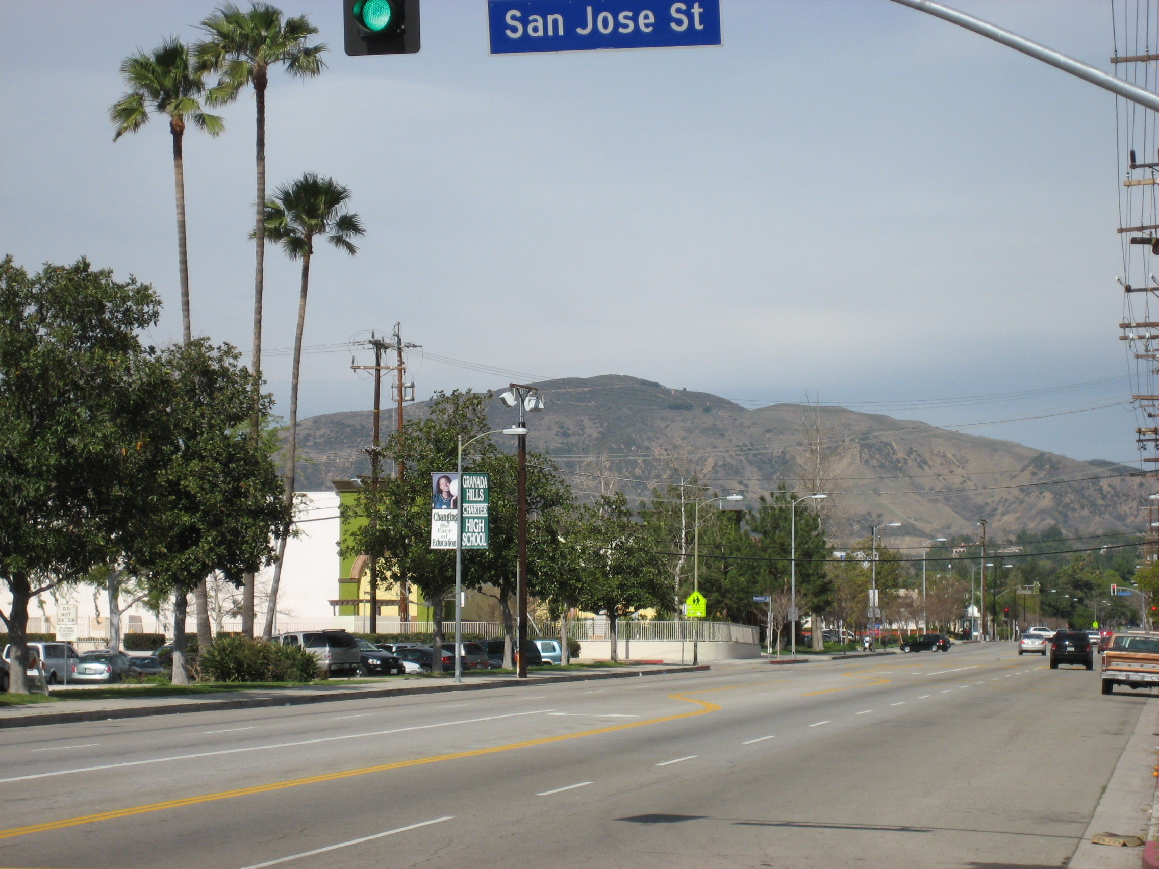 Mission Point (California). Taken from the intersection of Zelzah Avenue and San Jose Street.